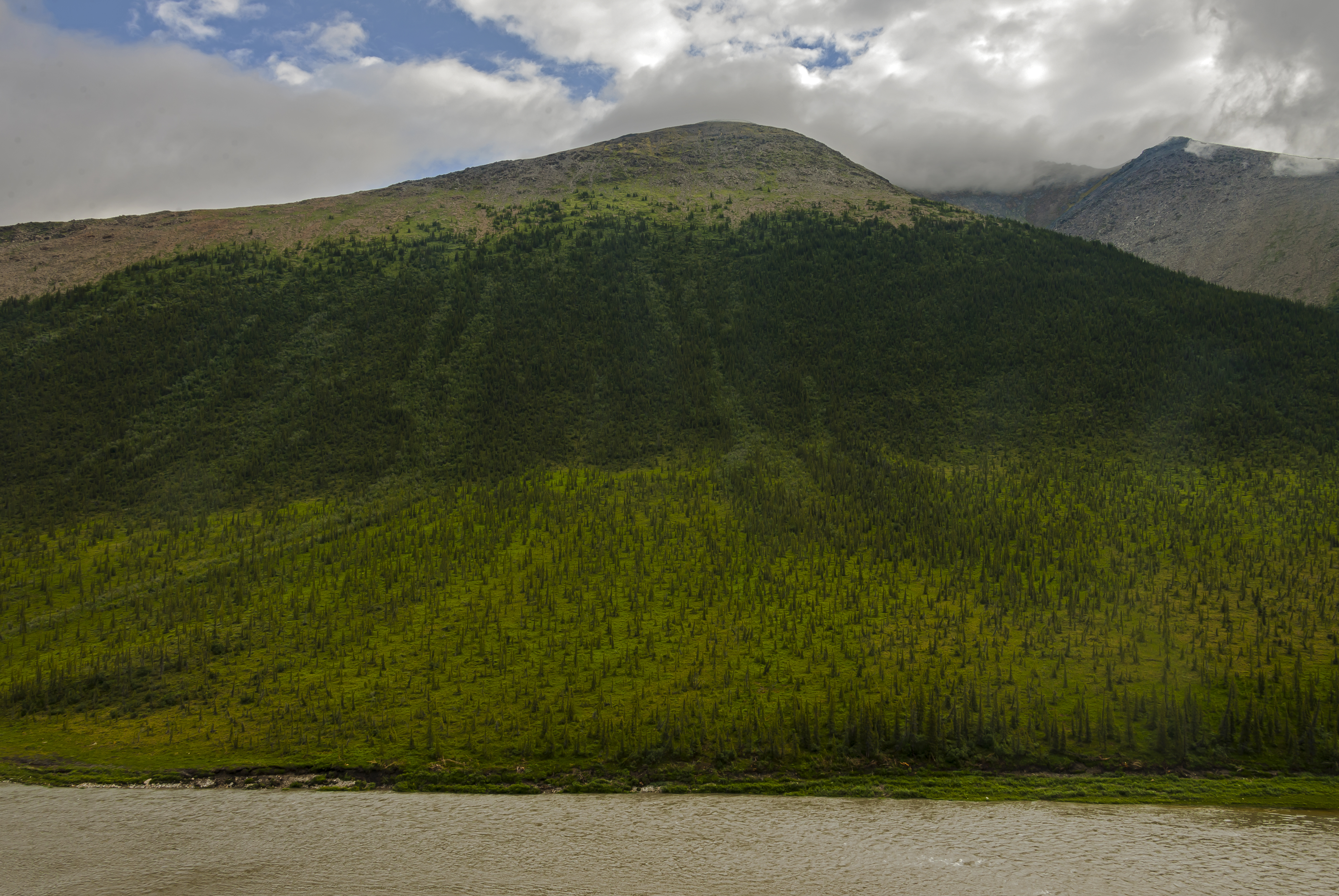 Treeline on a mountain above the Firth River near its confluence with Joe Creek in Canada's Ivvavik National Park